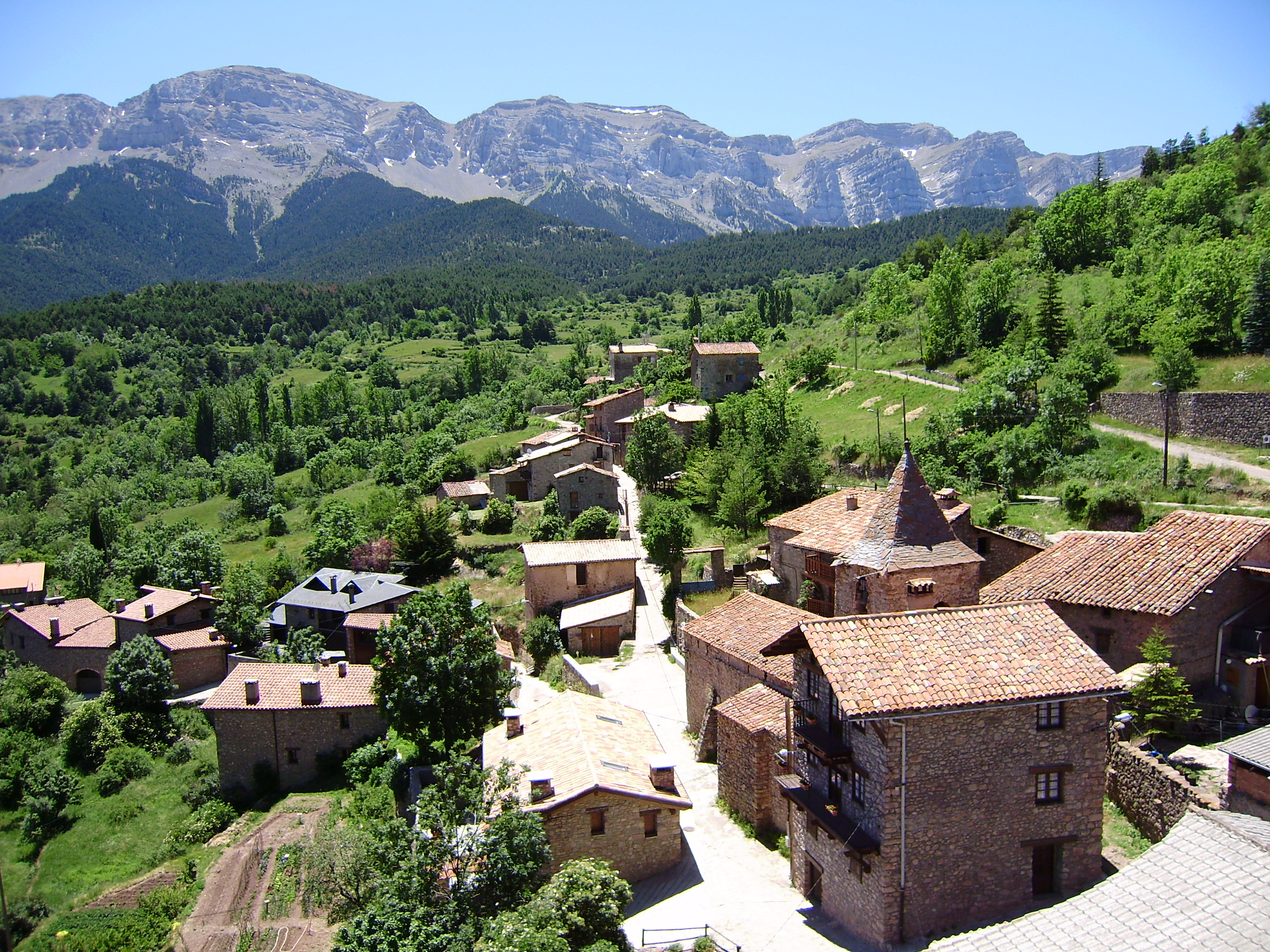 View of El Querforadat, Alt Urgell, Catalonia, Spain.